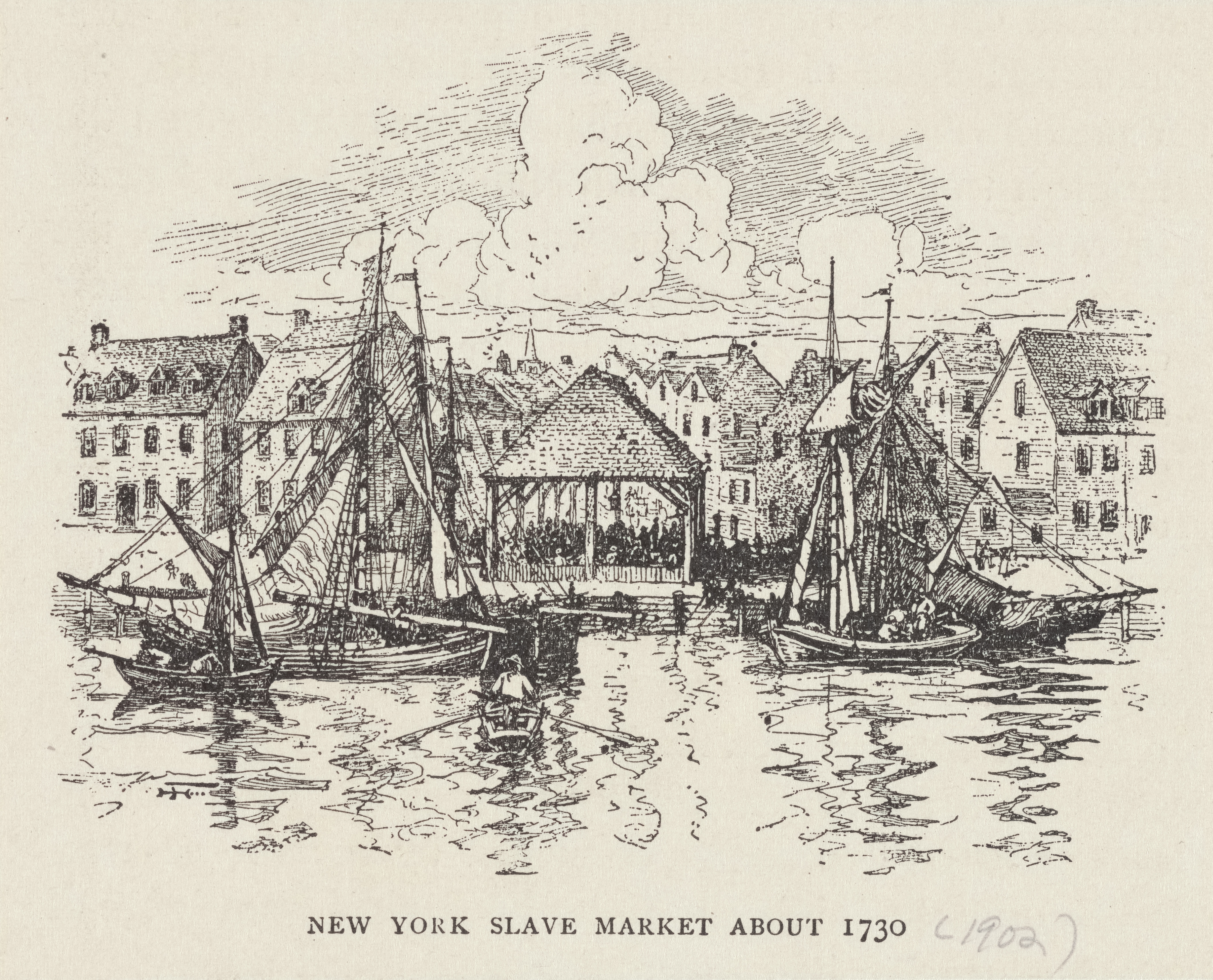 Drawing of the New York City slave market about 1730, published in A History of the American People (1902–1903)